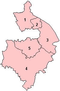 Districts within the County of Warwickshire